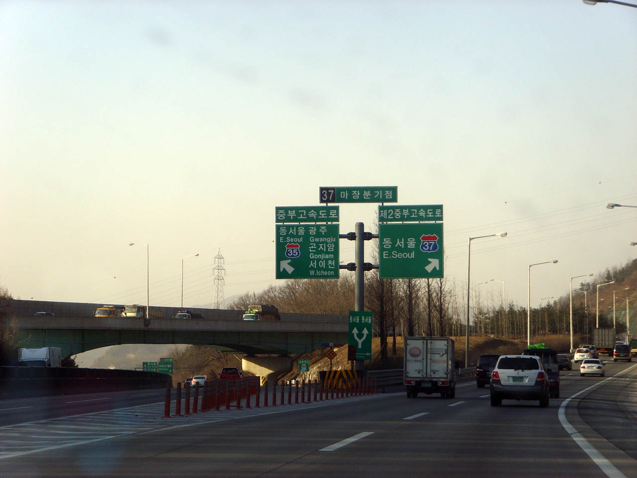 Majang JCT. (Jungbu Expressway, 2nd Jungbu Expressway)